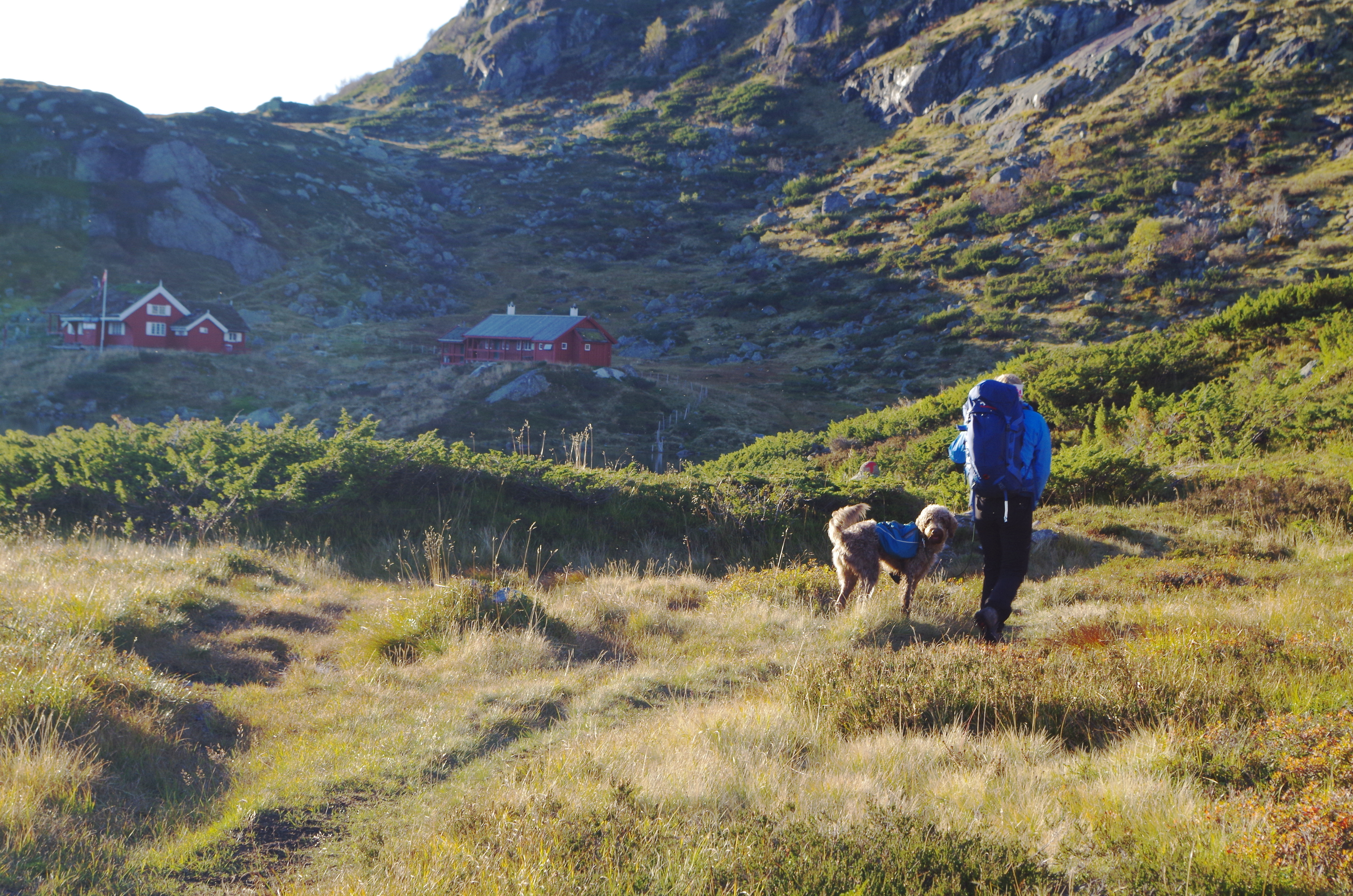 On our way to Gaukhei in Setesdal in Southern Norway